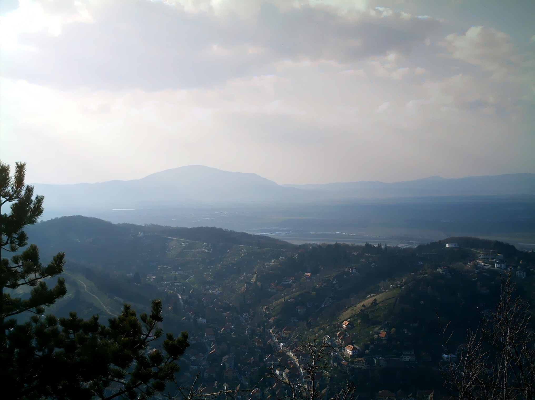 View over Burzenland from Tampa mountain, Brasov